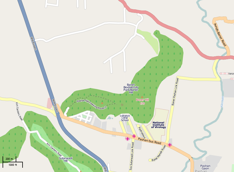 Map of Baner-Pashan Biodiversity Park This map may be incomplete, and may contain errors. Don't rely solely on it for navigation.